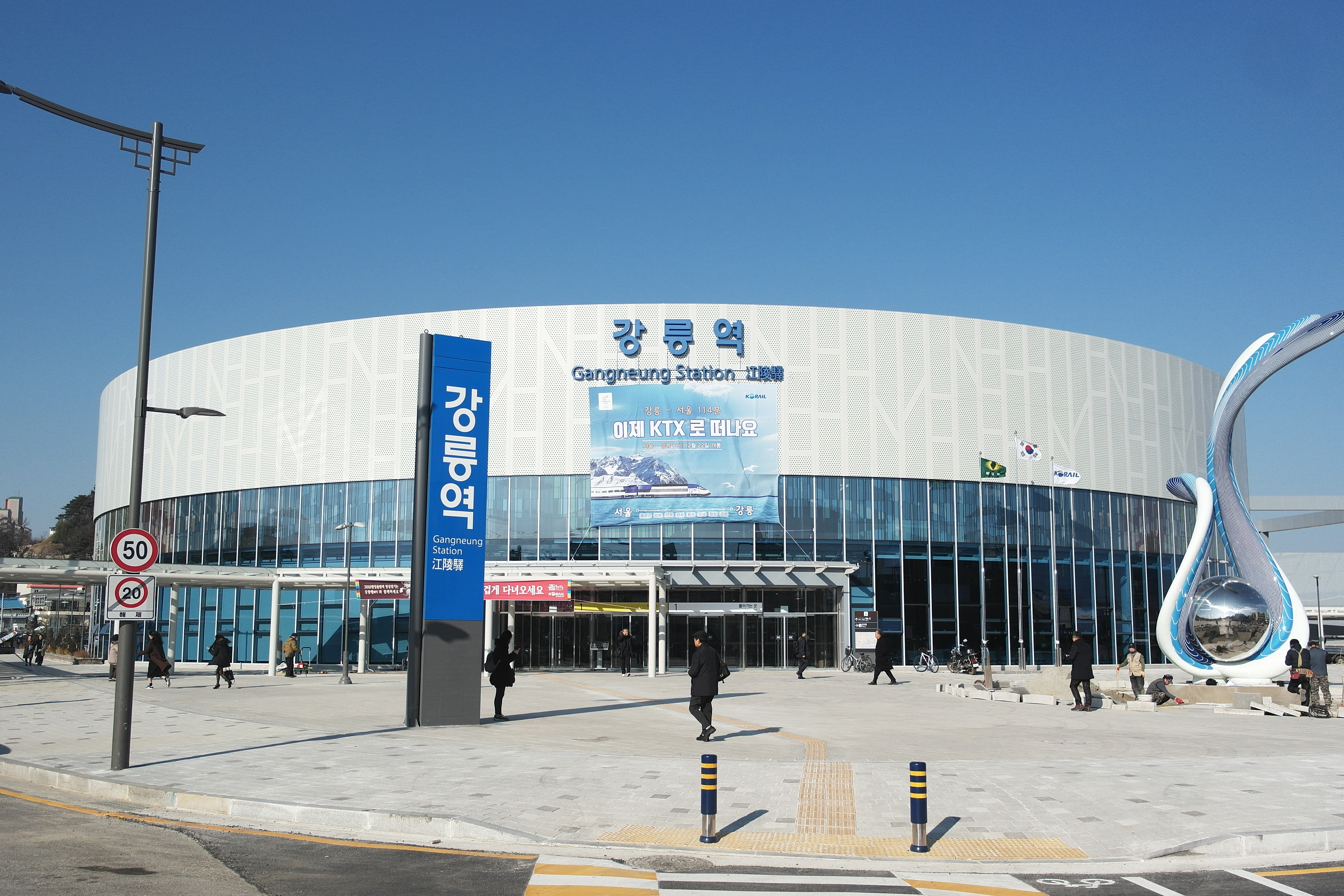 KTX Gangneung Station opening, 22 Dec 2017